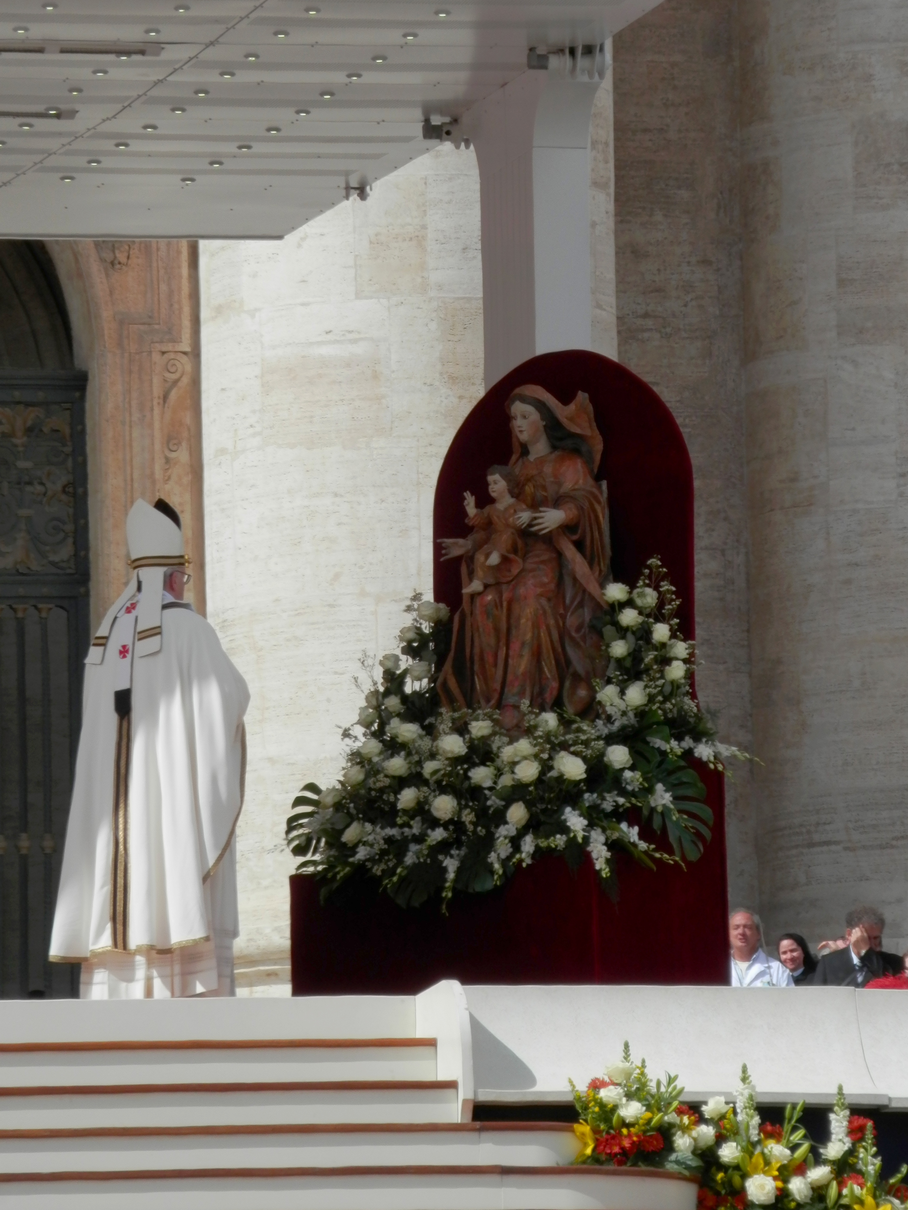 Inauguration of Pope's Francis Ministry, 19 March 2013